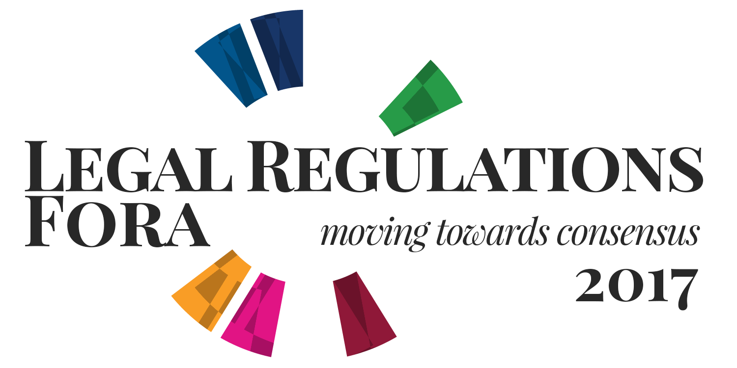 Logo of the civil society events set up during the 60th UN Commission on Narcotic Drugs in Vienna UN offices, March 2017.